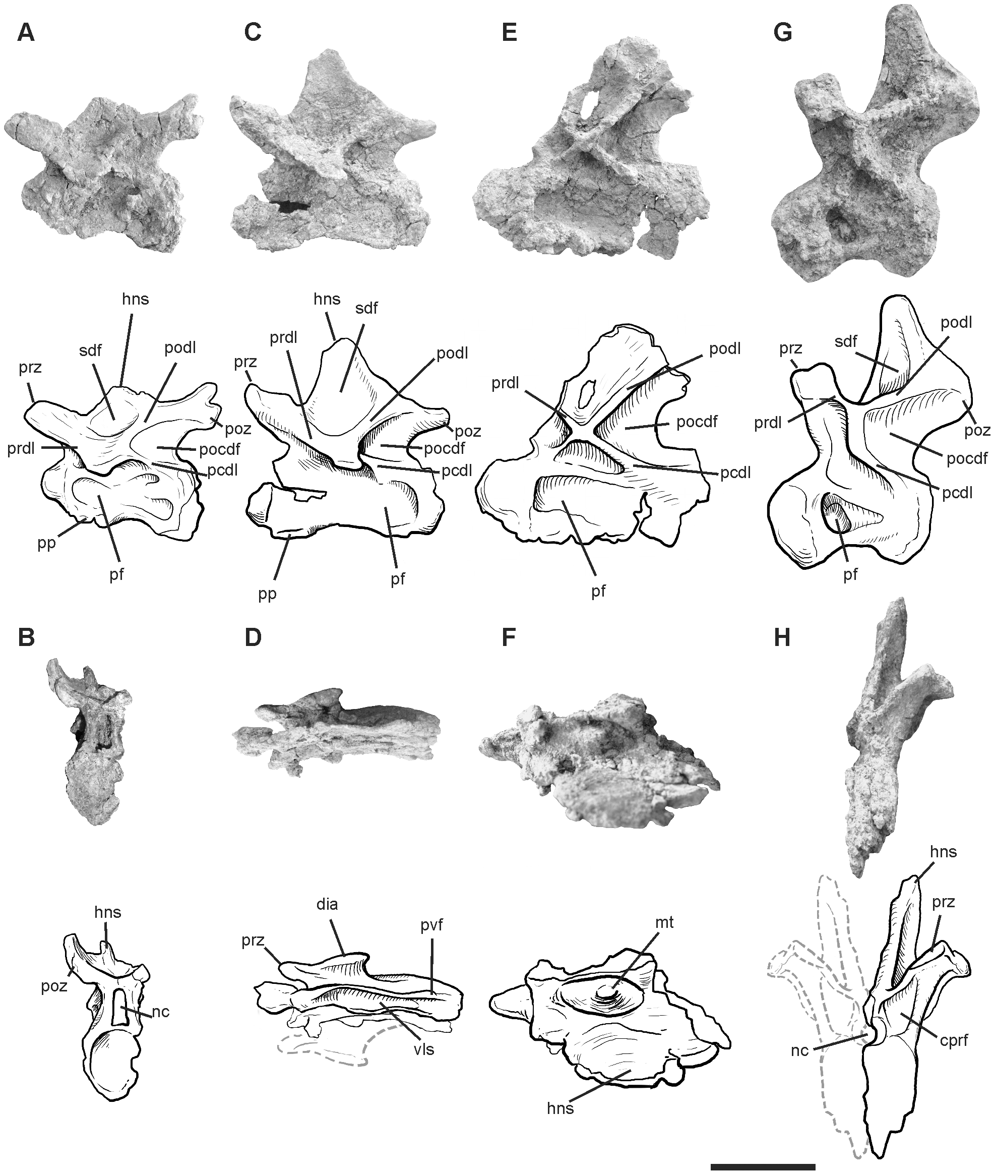 Photographs and half-tone drawings of the cervical and dorsal vertebrae of Leinkupal laticauda, gen. n. sp. n. (MMCH-Pv 63). Cervical 6? in (A) lateral and (B) posterior views. Cervical 8? in (C) lateral and (D) ventral views. Cervical 11? in (E) lateral and (F) dorsal views (reversed). Dorsal 2? in (G) lateral and (H) anterior views (reversed). Abbreviations: cprf, centroprezygapophyseal fossa; dia, diapophysis; hns, hemi neural spine; mt, median tubercle; nc, neural canal; pcdl, posterior centrodiapophyseal lamina; pf, pneumatic fossa; pocdf, postzygapophyseal centrodiapophyseal fossa; podl, postzygodiapophyseal lamina; poz, postzygapophysis; pp, parapophyses; prdl, prezygodiapophyseal lamina; prz, prezygapophysis; pvf, posteroventral flanges; sdf, spinodiapophyseal fossa. Scale bar equals 10 cm.